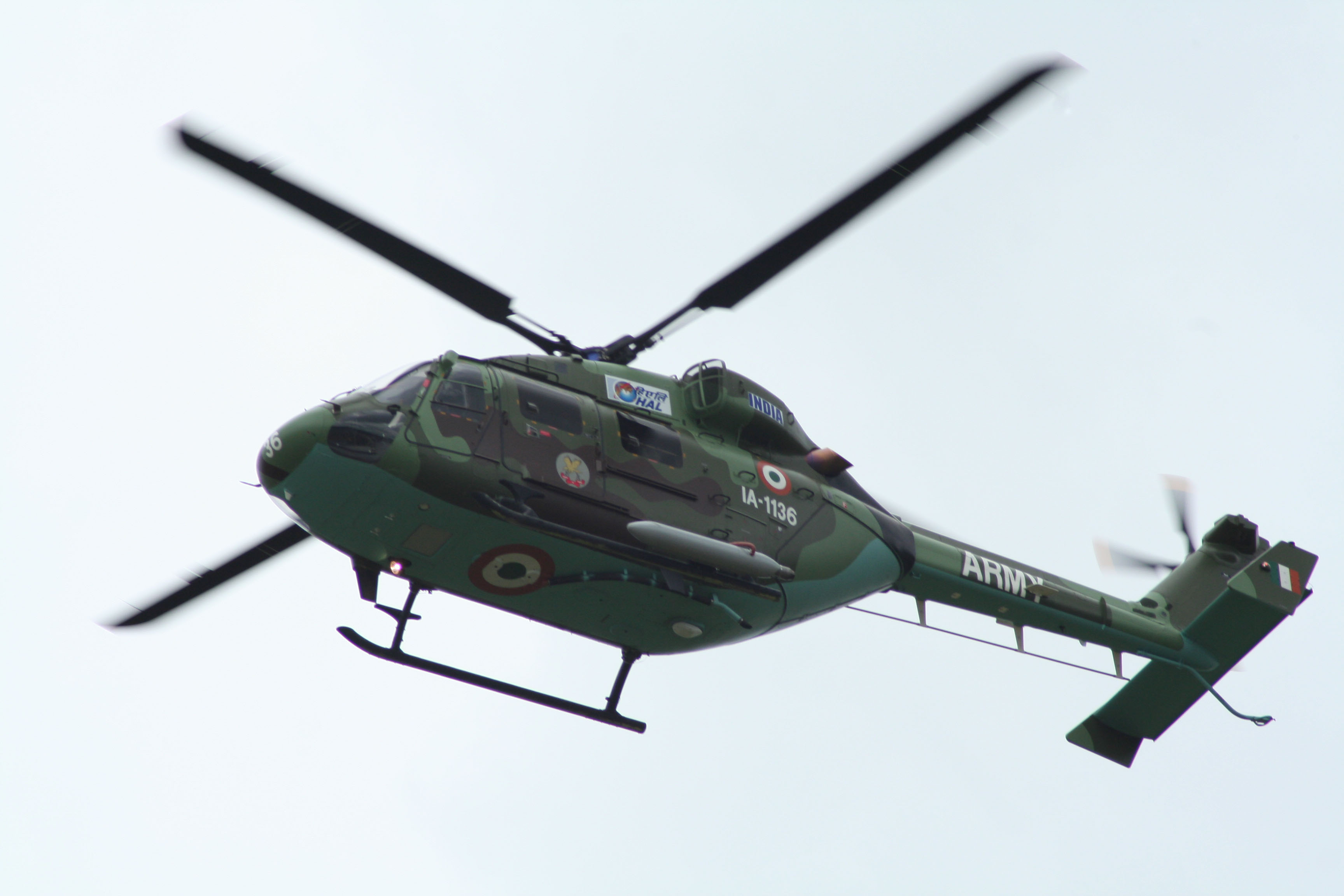 Dhruv helicopter of the Indian Army at the Farnborough Airshow.